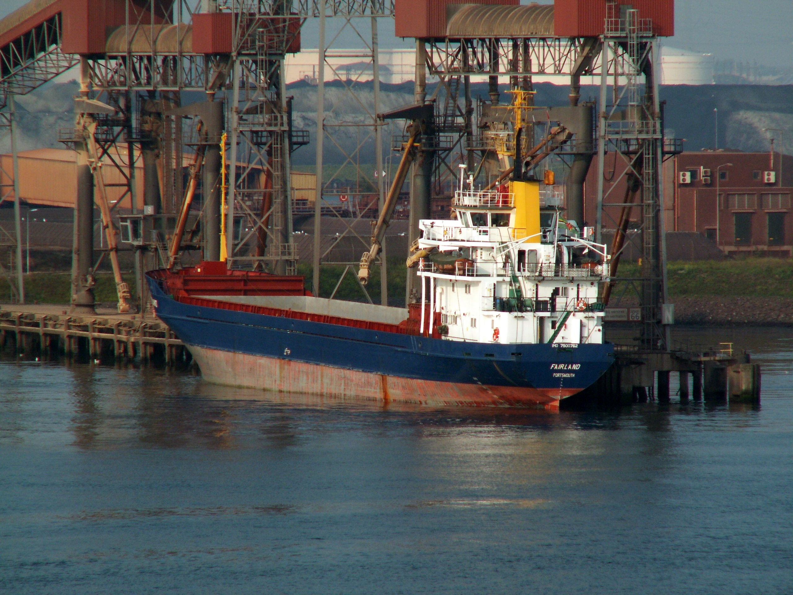 Photographed at the Port of Rotterdam, the Netherlands.